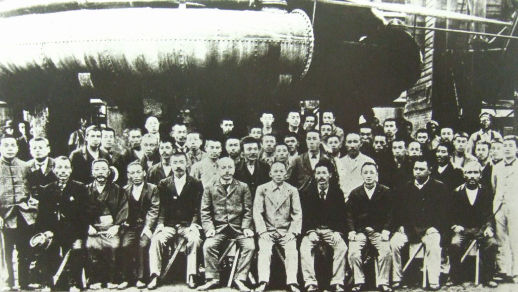 Tanaka iron works, Kamaishi mine